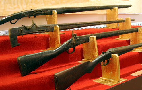 Vietnamese small arms in chronological order